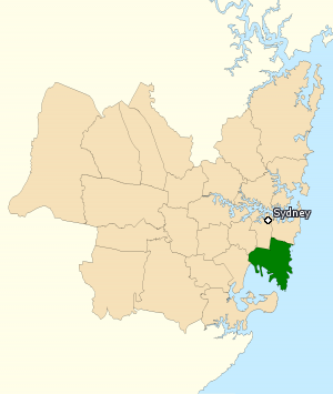 This image incorporates data that is: © Commonwealth of Australia (Australian Electoral Commission) 2009 Division of Kingsford Smith 2010